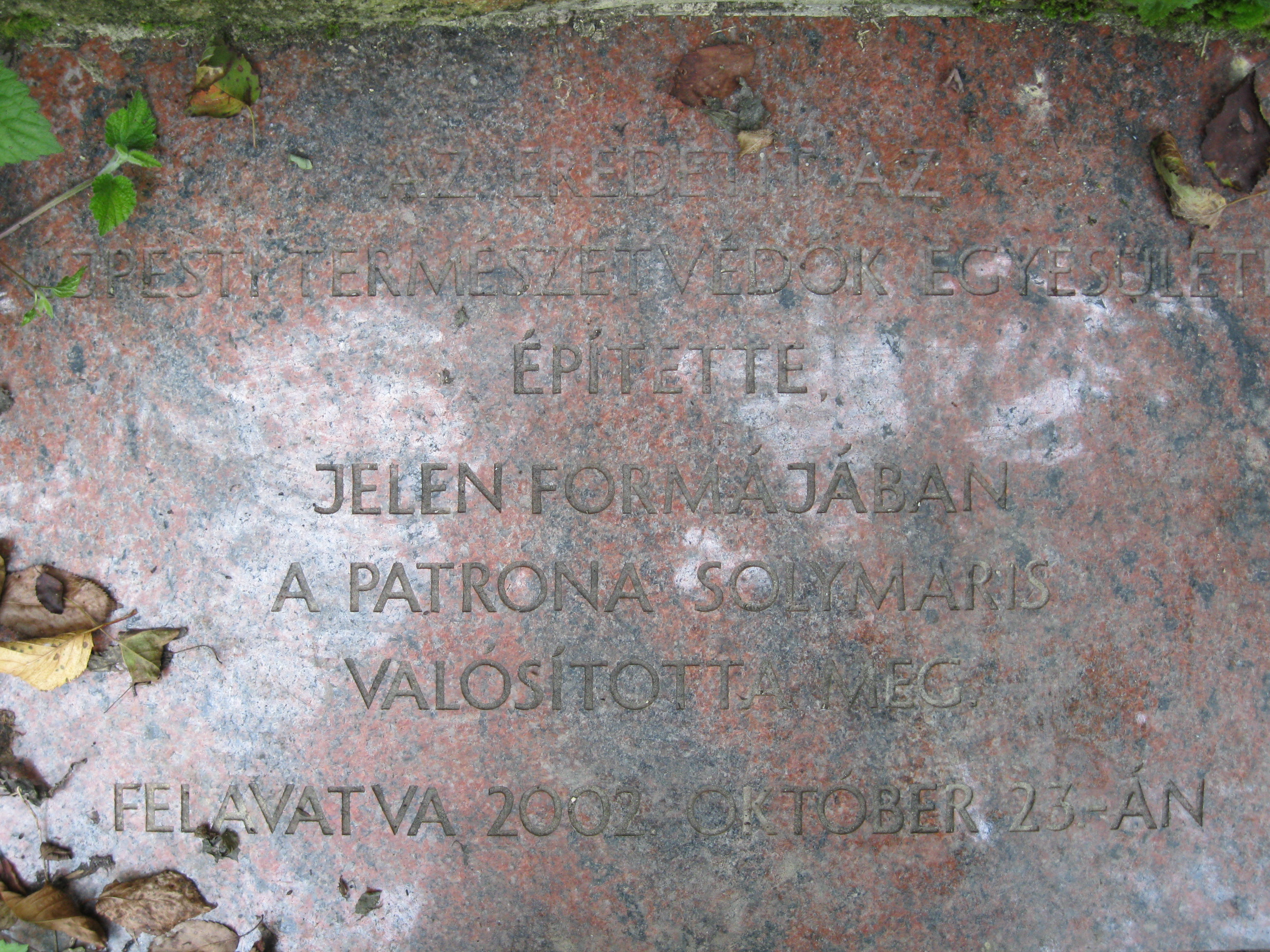 Information plaque of Rózsika Spring